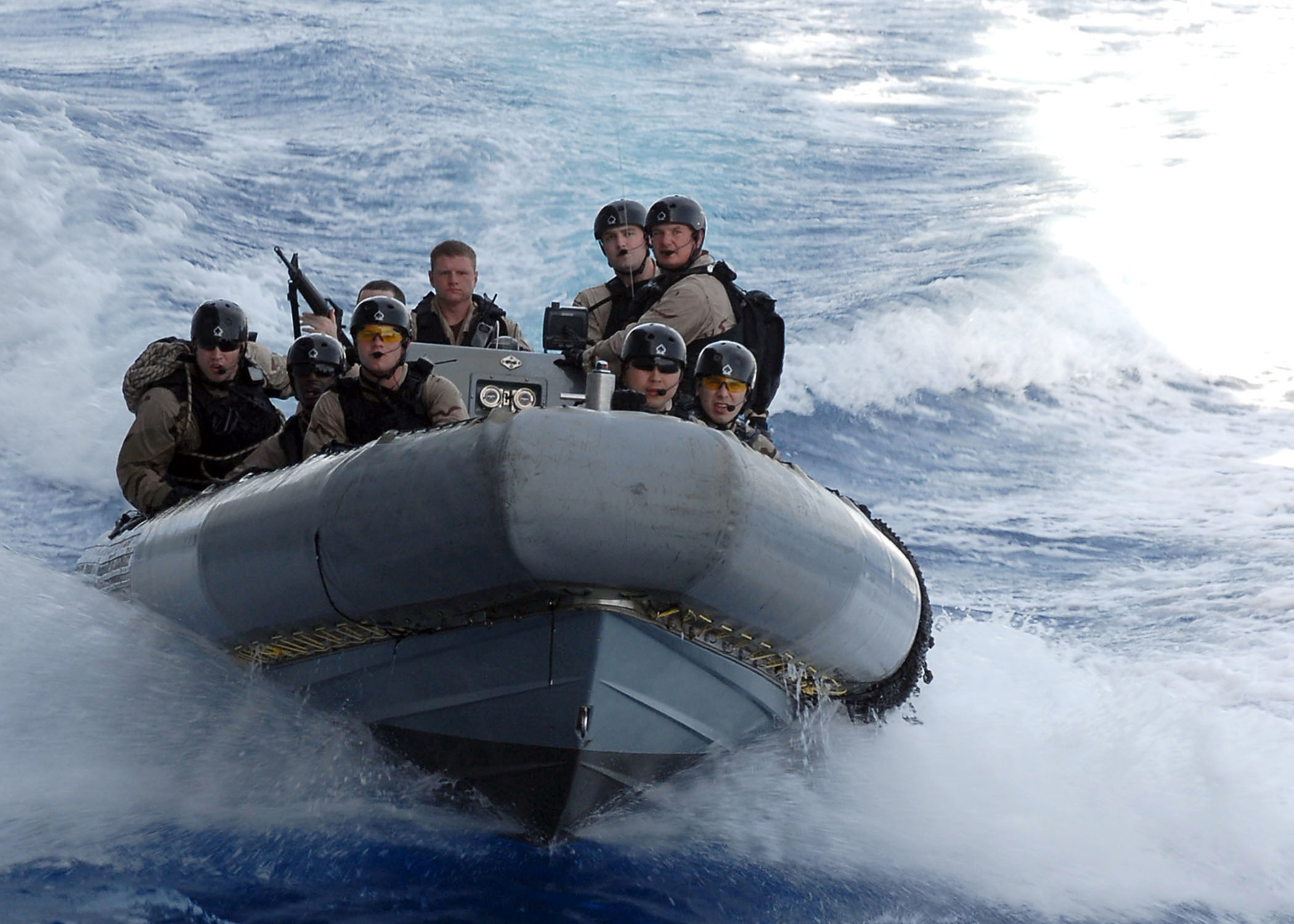 080318-N-2735T-111 MEDITERRANEAN SEA (March 18, 2008) Members of the guided-missile cruiser USS San Jacinto (CG 56) visit, board, search and seizure team ride their rigid-hull inflatable boat towards the amphibious transport dock ship USS Nashville (LPD 13) during a training exercise. Both ships are operating in the U.S. 6th Fleet area of responsibility. U.S. Navy photo by Mass Communication Specialist 3rd Class Coleman Thompson (Released)